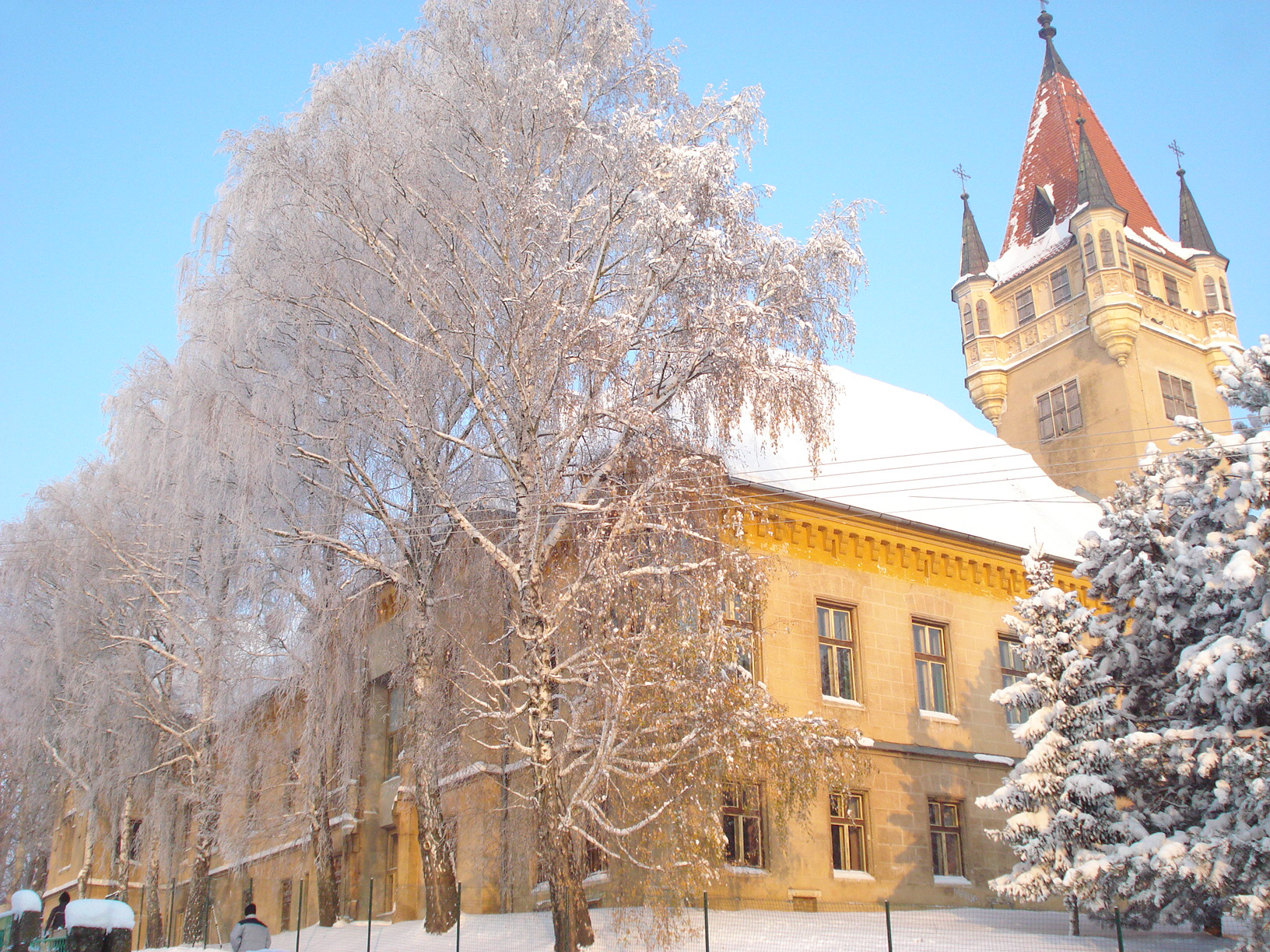 Feštetić castle in Pribislavec - southwest view